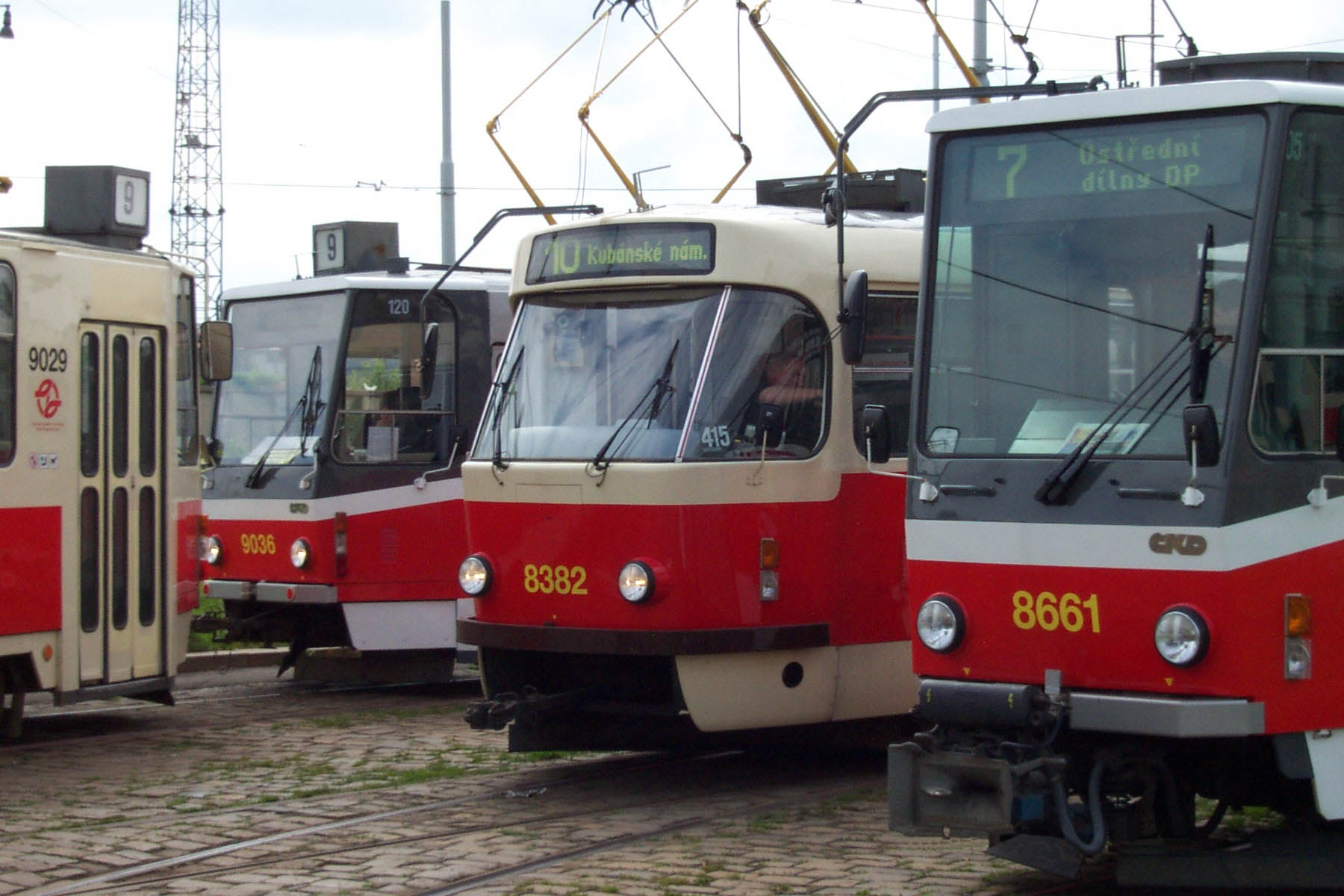 Various trams in Prague, station Sídliště Řepy, Prague, the Czech Republic